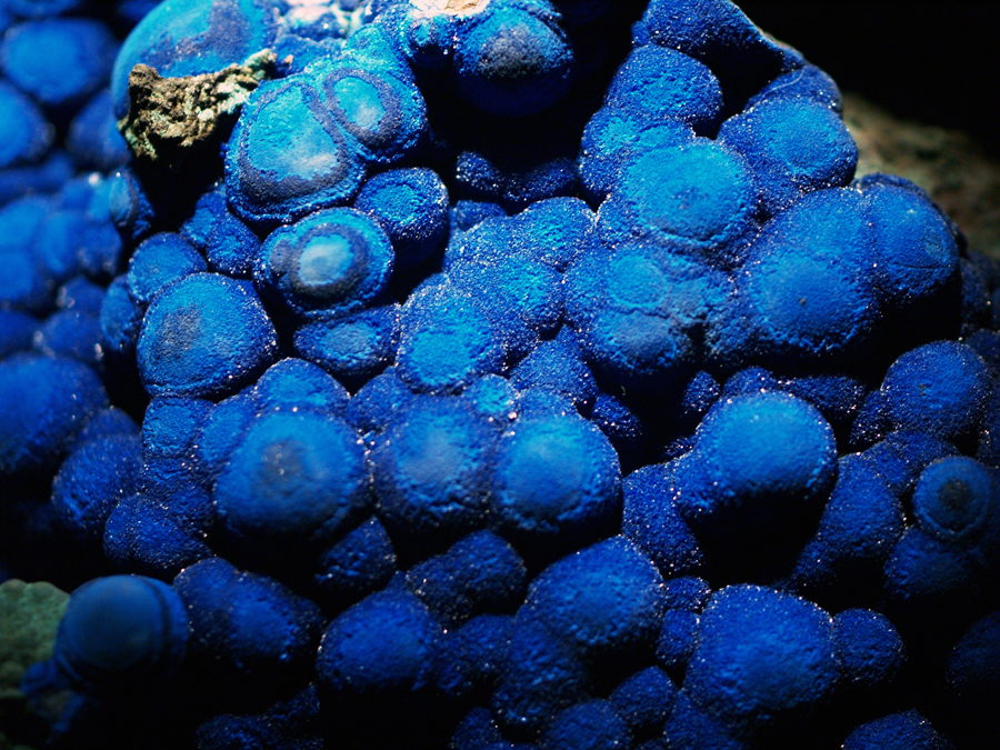 Azurite (botryoidal) Trigonal copper carbonate Bisbec, Cochise County, Arizona, USA Wikipedia Loves Art at the Houston Museum of Natural Science This photo of item # [1] at the Houston Museum of Natural Science was contributed under the team name "Assignment_Houston_One" as part of the Wikipedia Loves Art project in February 2009. Houston Museum of Natural Science The original photograph on Flickr was taken by sulla55—please add a comment to the original Flickr page whenever a use has been made on Wikipedia or another project. Project galleries on Flickr: this institution, this team